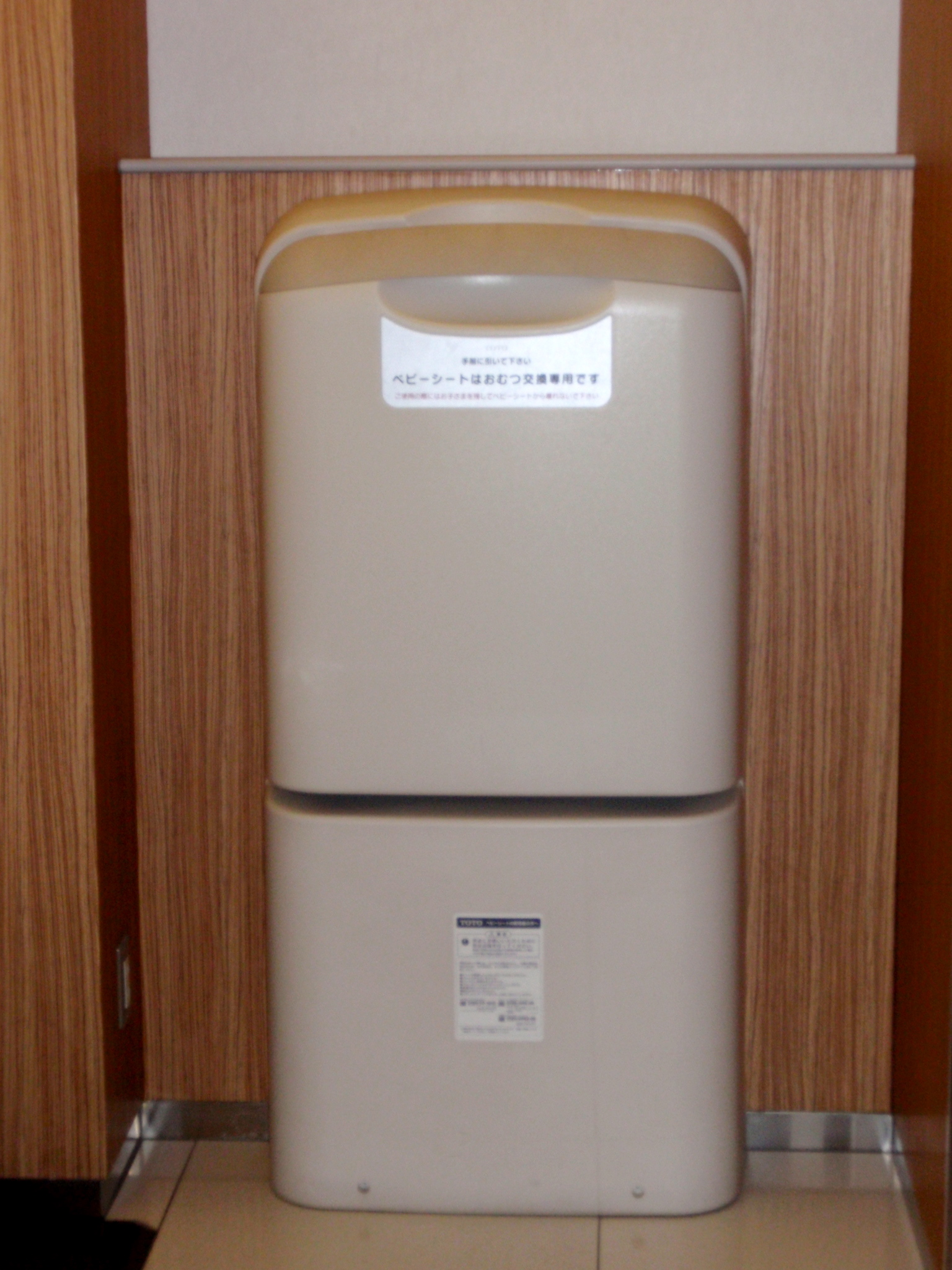 Foldable baby changing table in Japanese public toilet